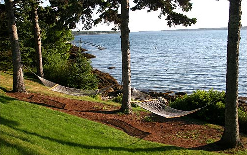 Hammocks overlooking Boothbay Harbor, Maine. Image made by Robert Swanson